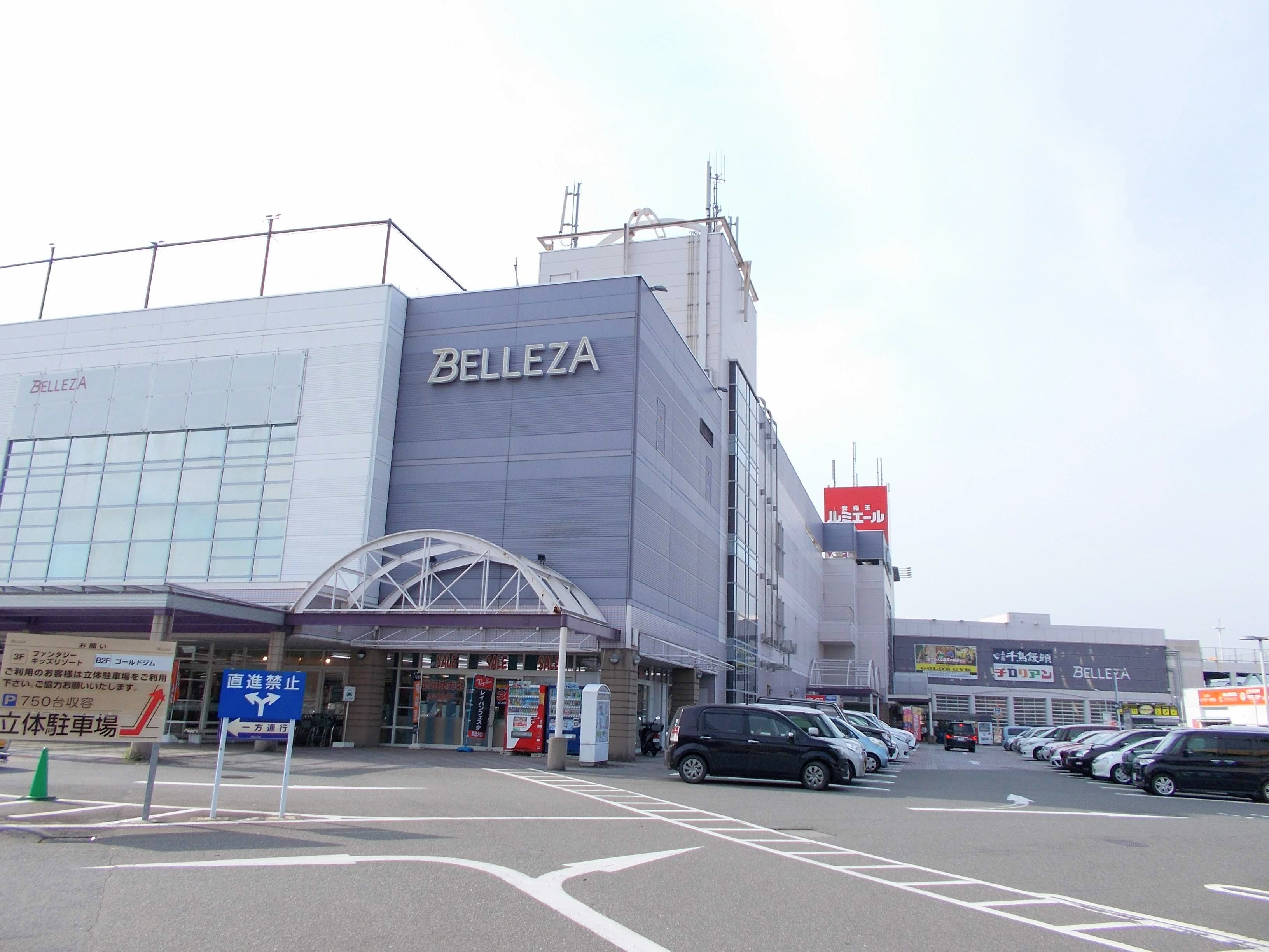 Chikushino Belleza, a shopping mall in Chikushino, Fukuoka, Japan